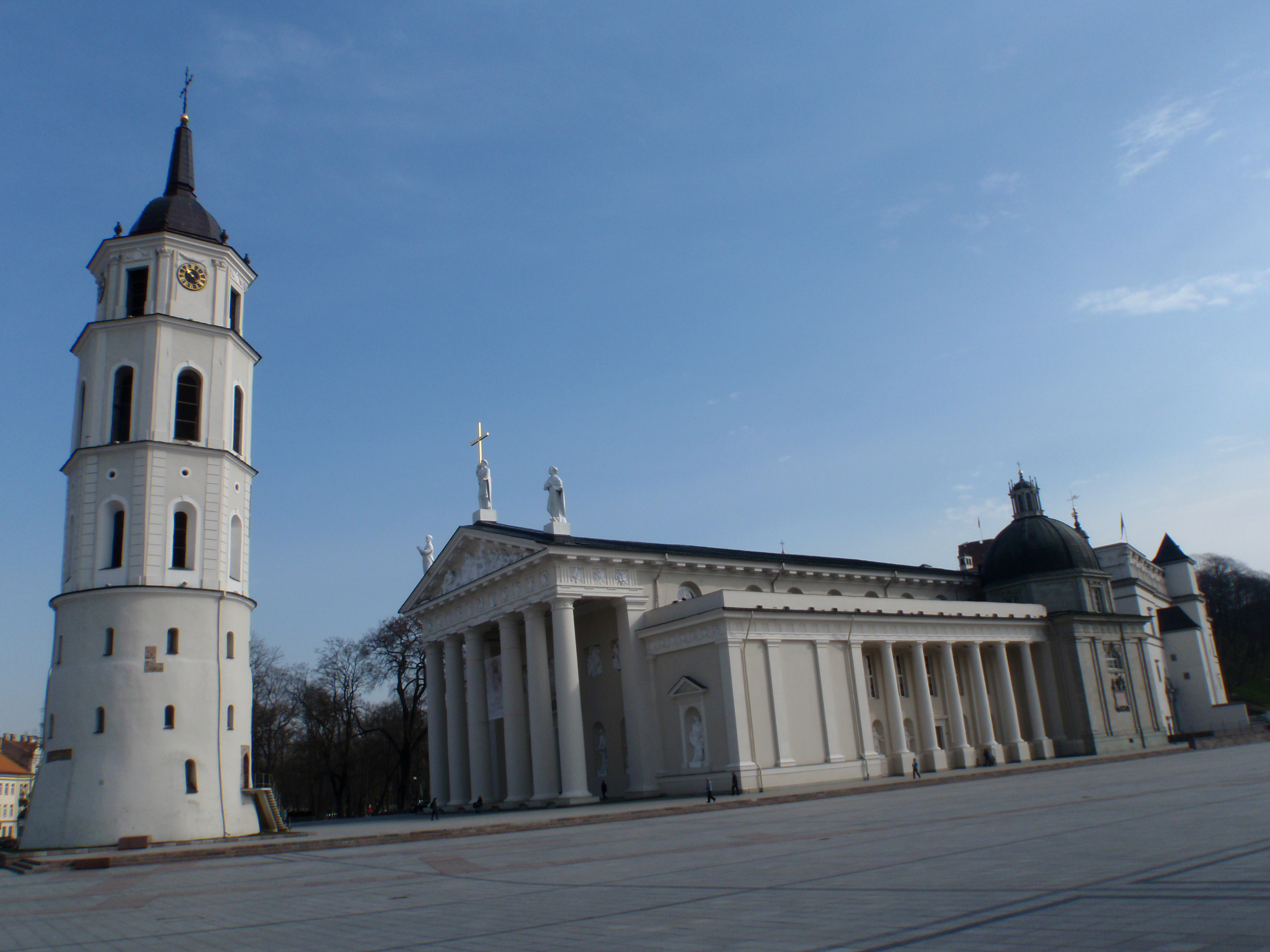 Vilnius cathedral